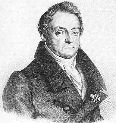 Portrait of count Ferdinand von Waldstein (1762 - 1823)